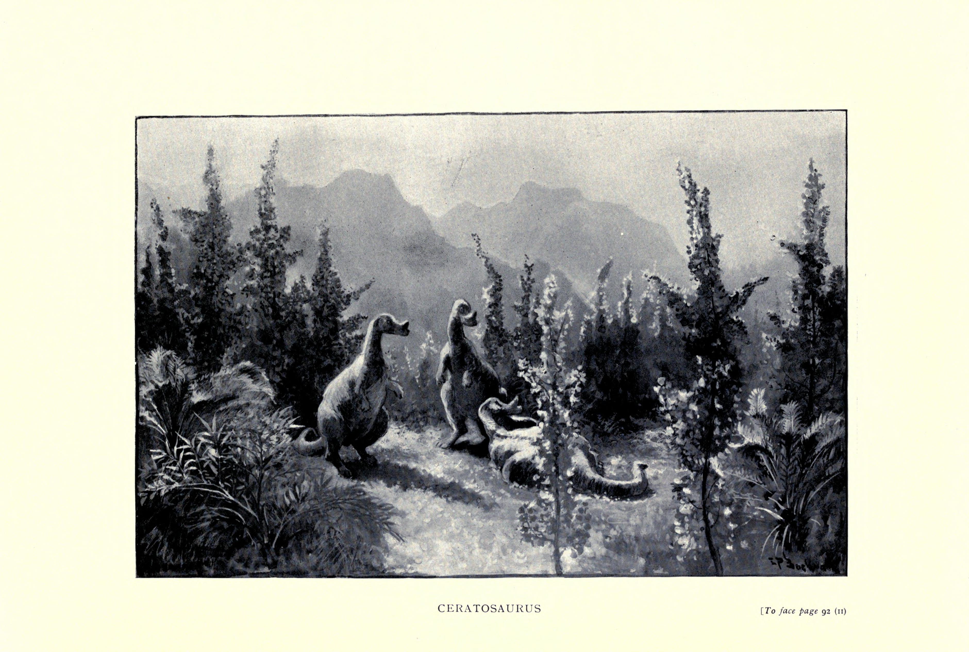 Evolution in the past, by Henry R. Knipe, with illustrations by Alice B. Woodward and Ernest Bucknall.